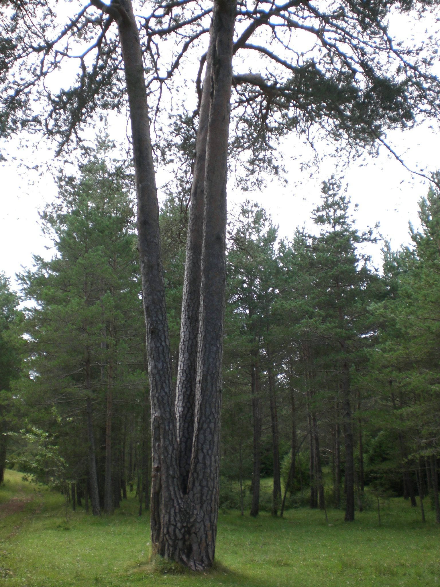 Pi Jove de les Tres Branques, or Pi de les Tres Branques II, at Campllong, Catalonia, Spain.